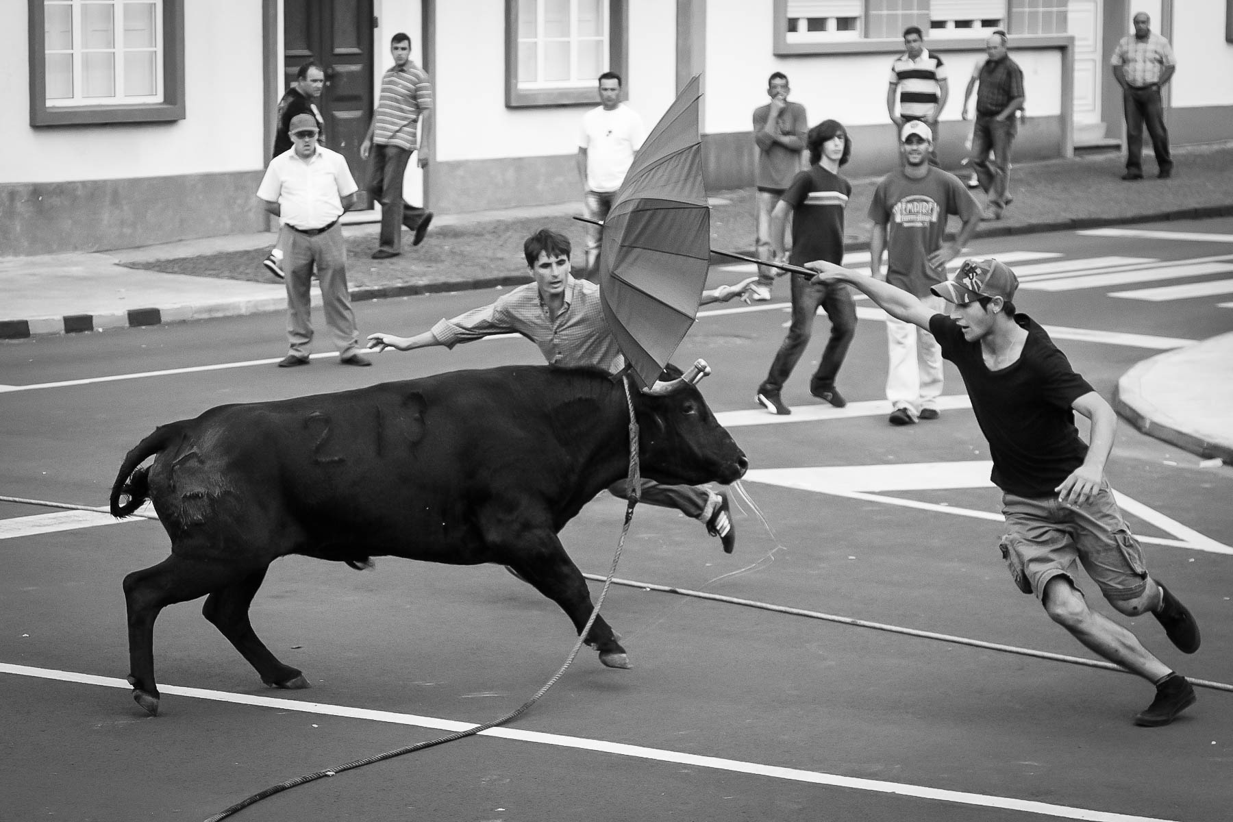 Traditional Bullfighting on a Rope in the azores